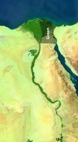 Land of Goshen, (also Goshen, Gosen) (Genesis 45:10).